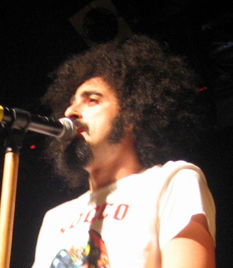 Italian rapper Caparezza live in Hiroshima Mon Amour, Turin